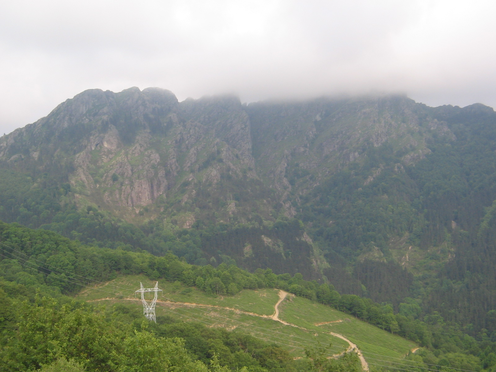 Close-up view of Aiako Harria as seen from the NWEuskara: Aiako Harriaren ikuspegia IMtik